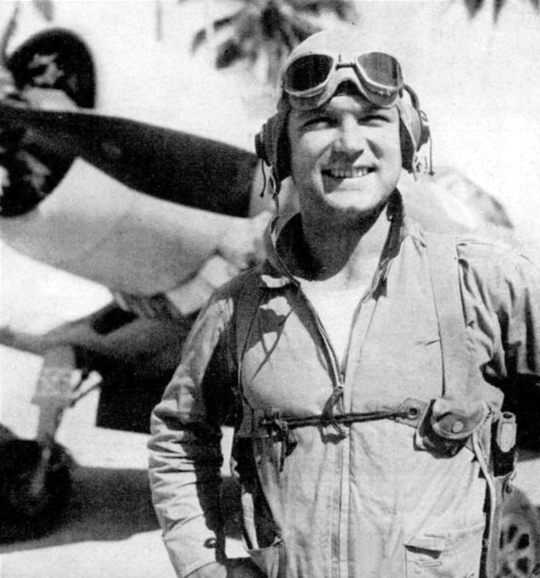 Photograph of World War II flying ace Robert M. Hanson